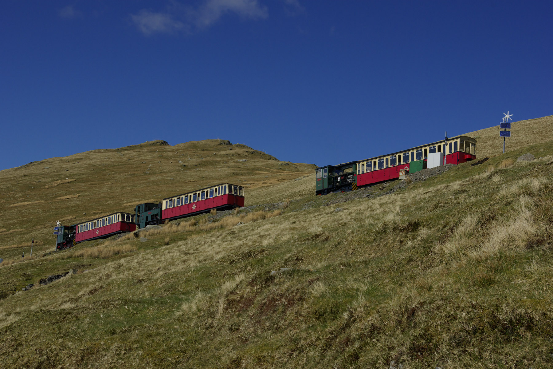 Three trains on the Snowdon Mountain Railway